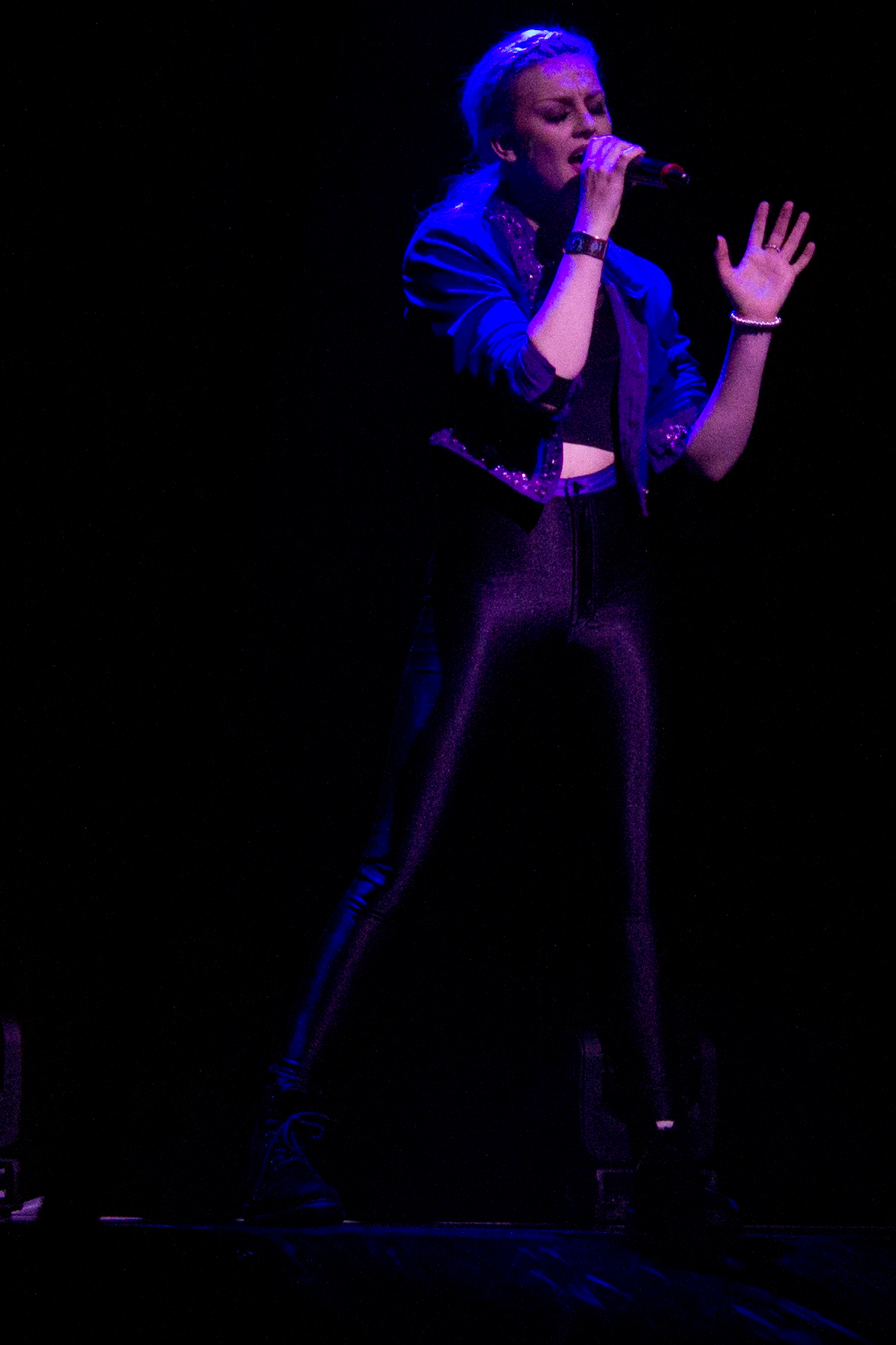 Little Mix